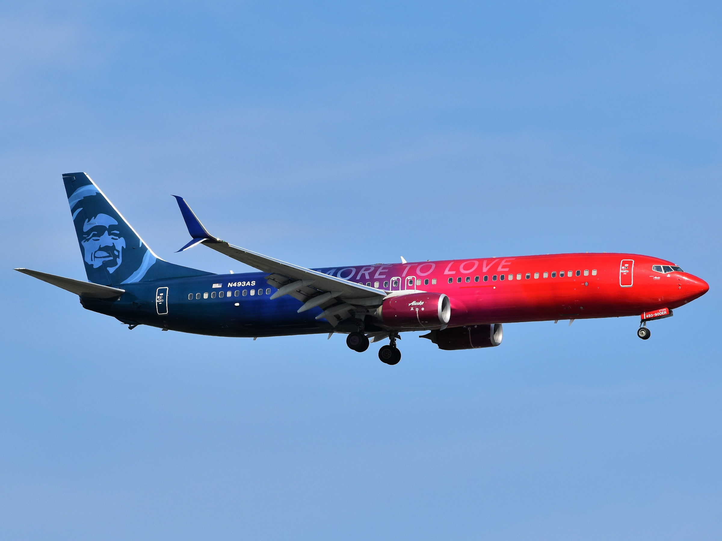 An Alaska Airlines Boeing 737-900(ER) is on final approach to Newark Liberty International Airport, passing over Interstate 78 and Port Street in the North Area.